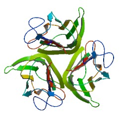 This image is from PDB_4tsv. The trimeric form of TNF-alpha mutant.